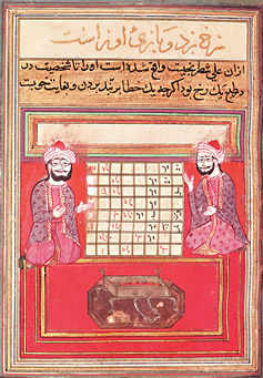 An illustration from a Persian manuscript "A treatise on chess"